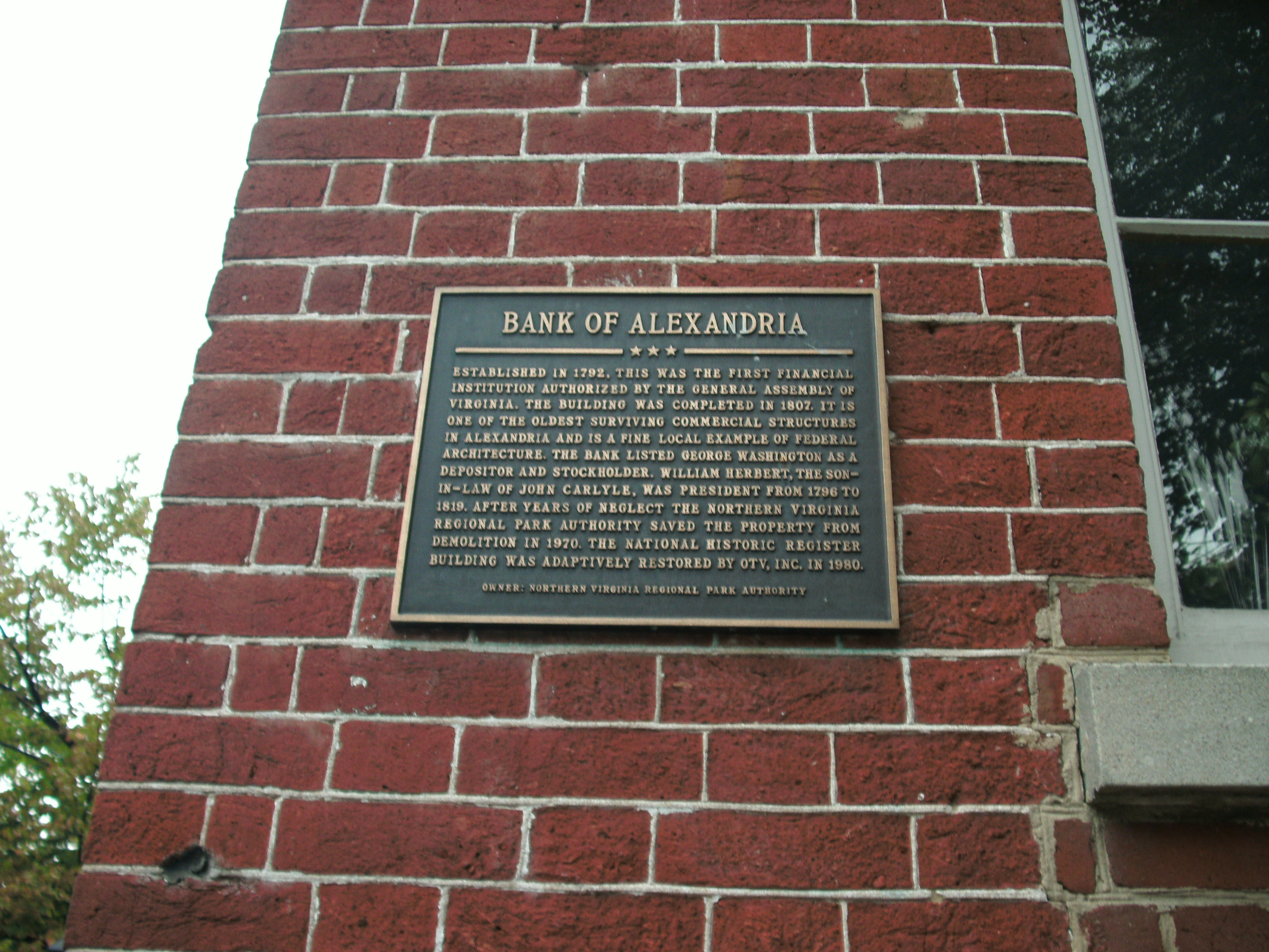 Alexandria, VA, September 2009 GEDSC DIGITAL CAMERA